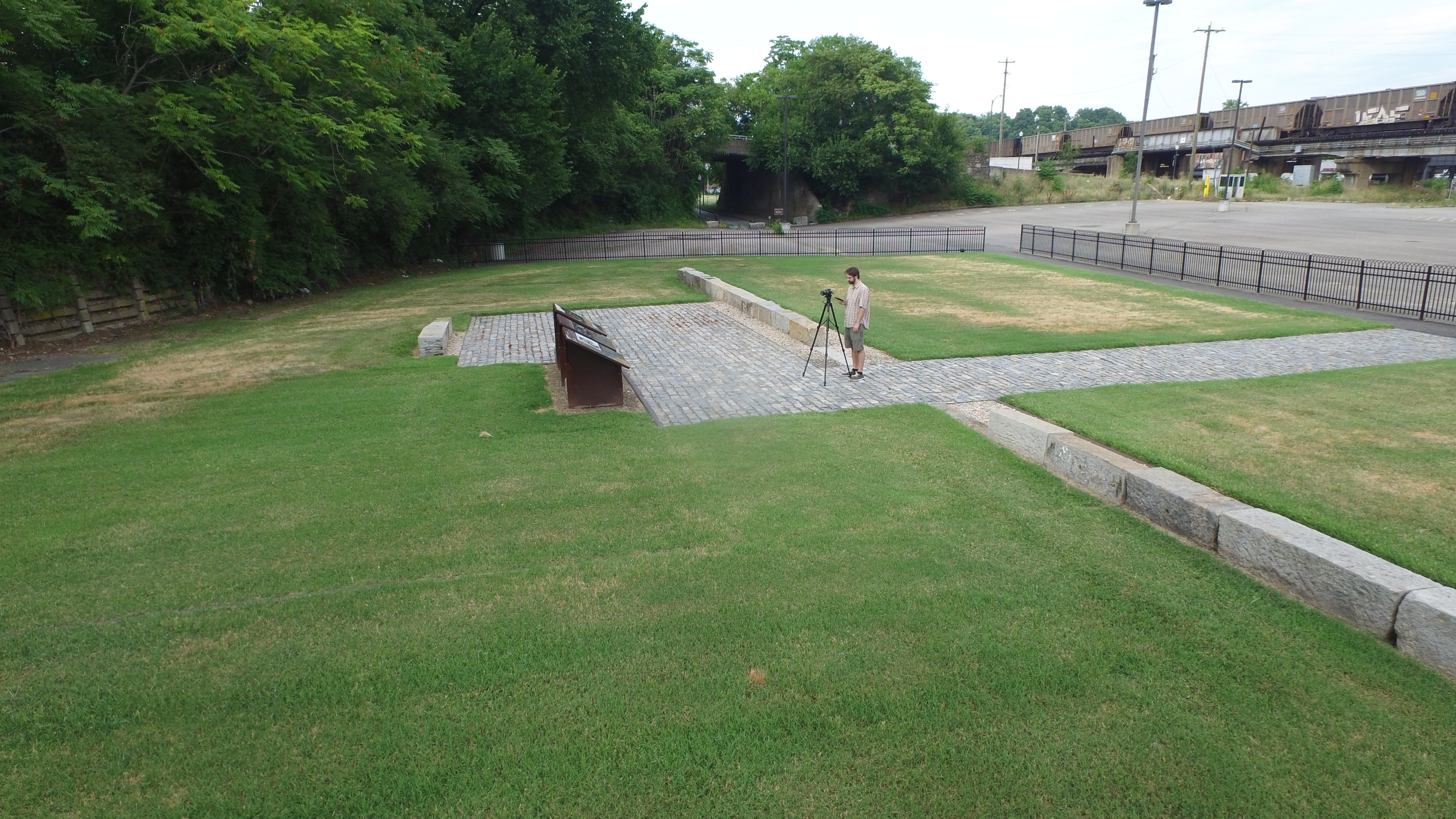 Lumpkin's Jail Site in Richmond VA